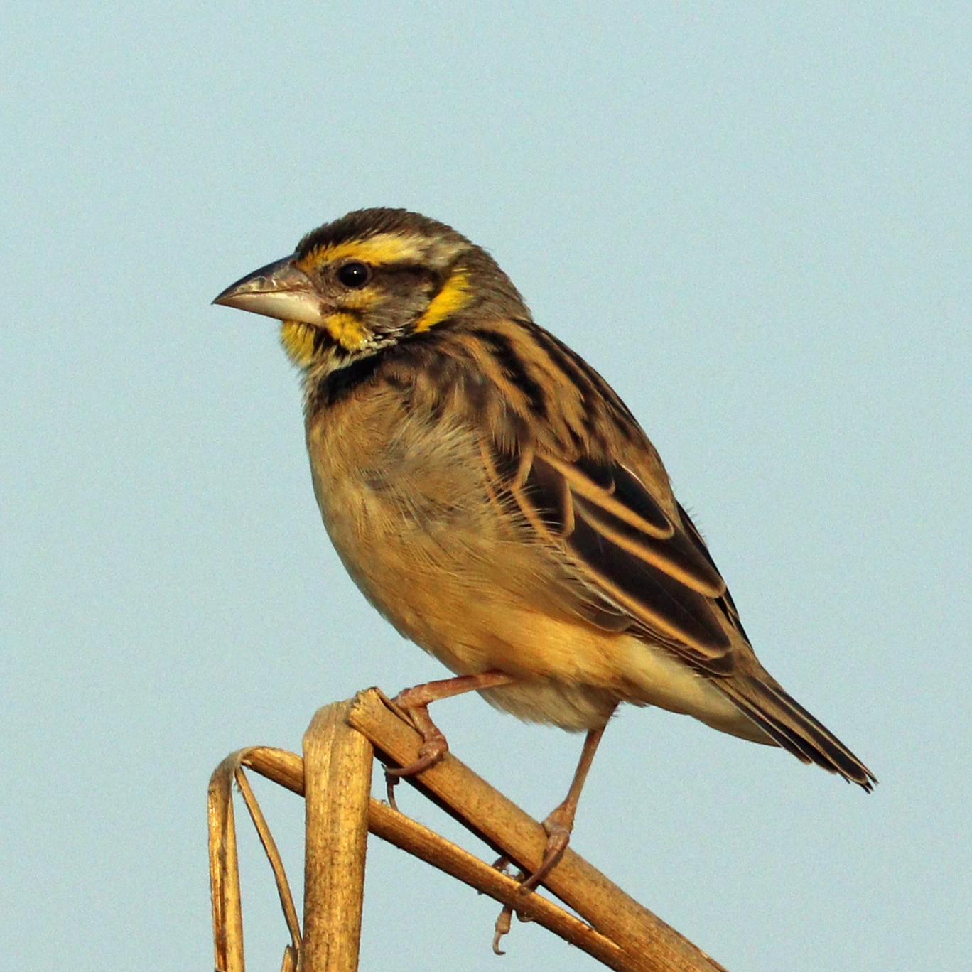 Black-breasted weaver (Ploceus benghalensis) non-breeding male or female, Salai, UP, India